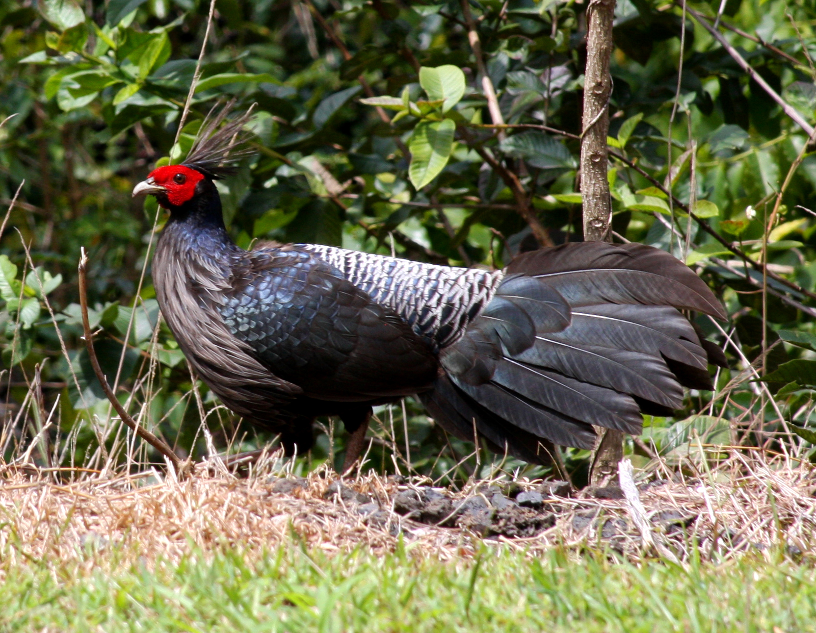 We drove up into the cloud forest of Haulalai. Not much to see besides, errr, clouds, but then a couple of male pheasants started sparring by the road! I wasn't fast enough to get a photo of the fight, but here is one of the contenders. Kalij Pheasants are native to Southern Asia and were introduced into Hawai'i in 1962. Hualalai, Hawai'i